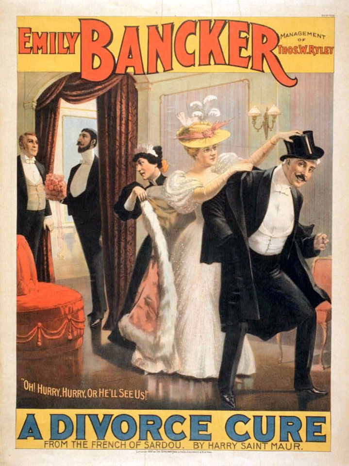 Victorien Sardou: A divorce cure from the French of Sardou by Harry Saint Maur